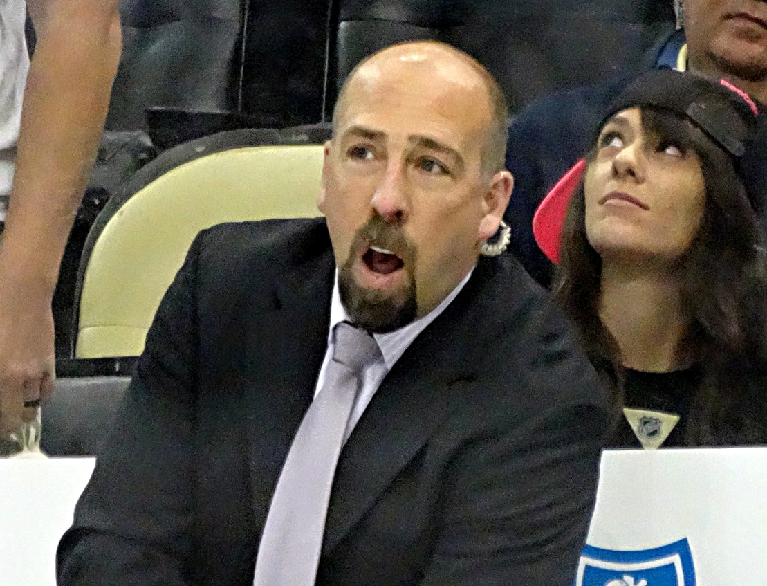 New York Islanders assistant coach Brent Thompson behind the bench during a playoff game against the Pittsburgh Penguins, May 9, 2013, at Consol Energy Center in Pittsburgh, PA.